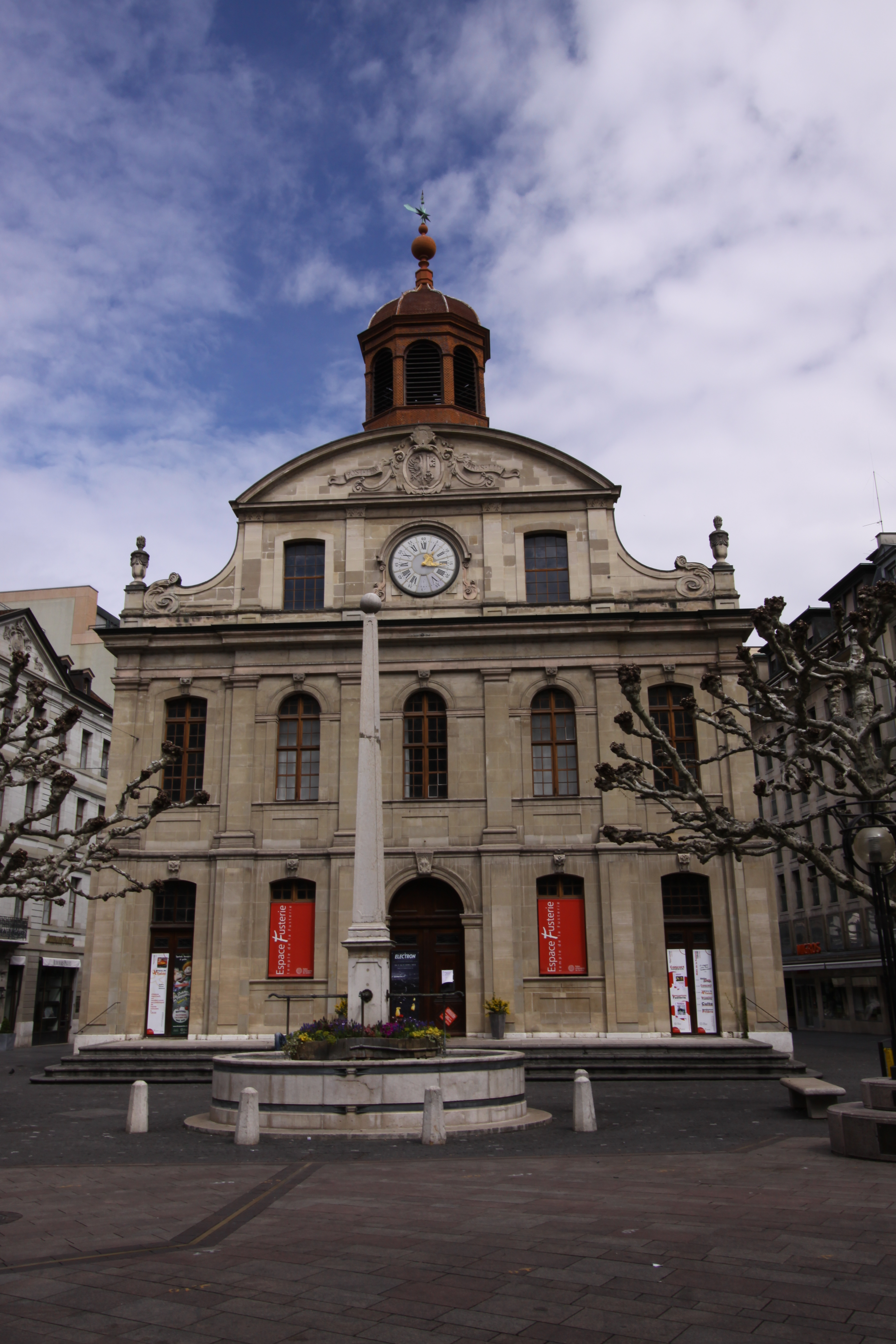 Reformed Church La Fusterie, Place de la Fusterie 18, Geneva